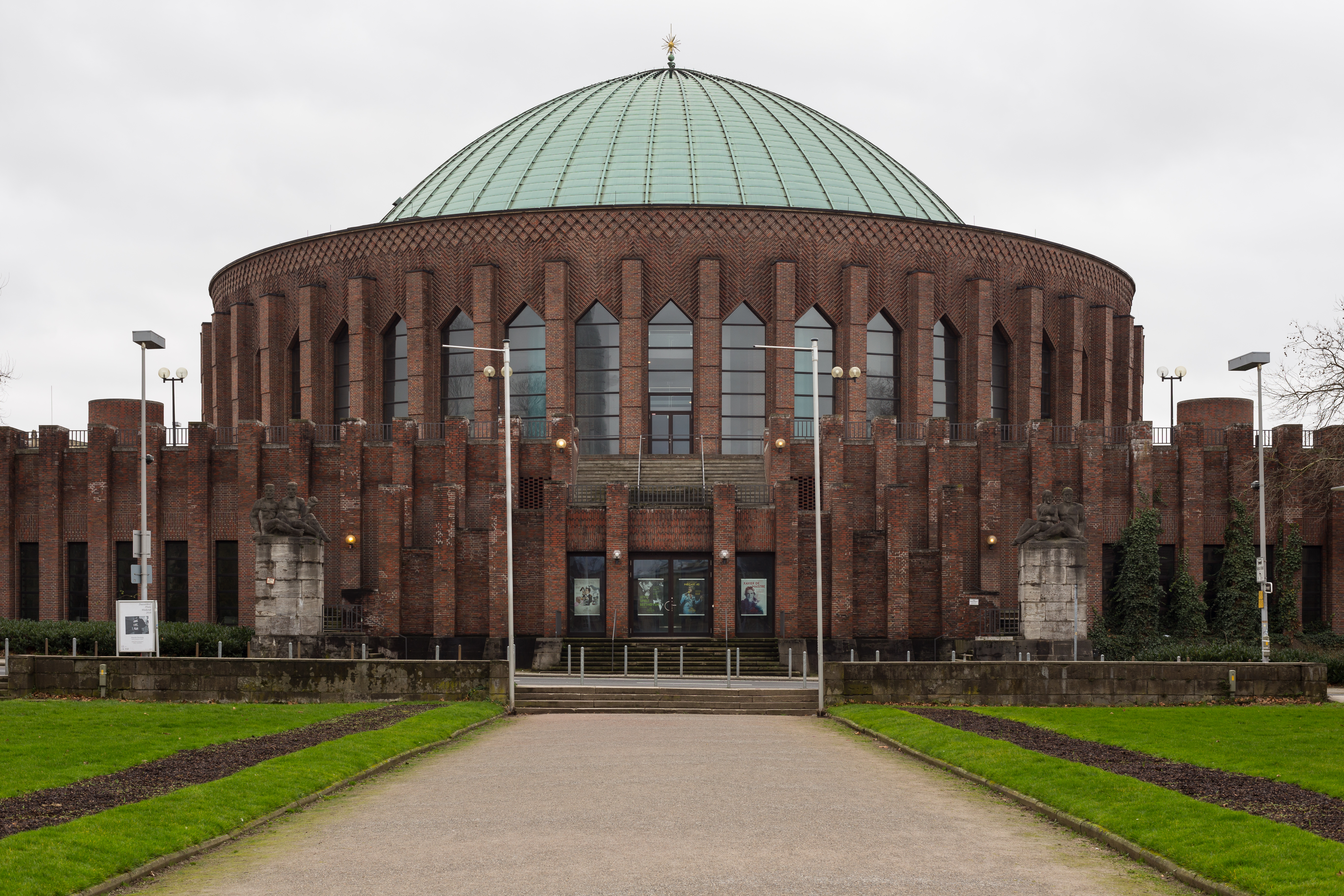 Tonhalle Duesseldorf located at Oederallee in Pempelfort quarter of Duesseldorf, Germany. View from Ehrenhof.